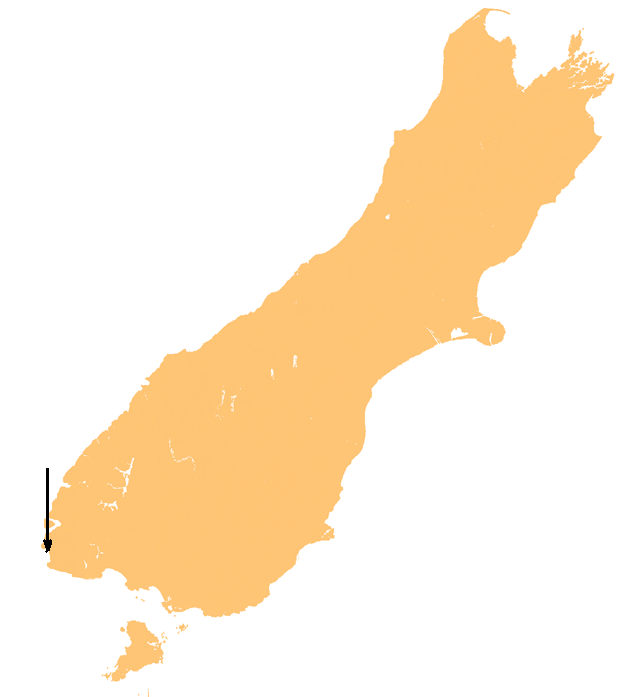 Location map of Chalky Island, New Zealand